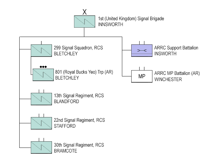 Updated structure of the 1st (United Kingdom) Signal Brigade, as up July 2020.